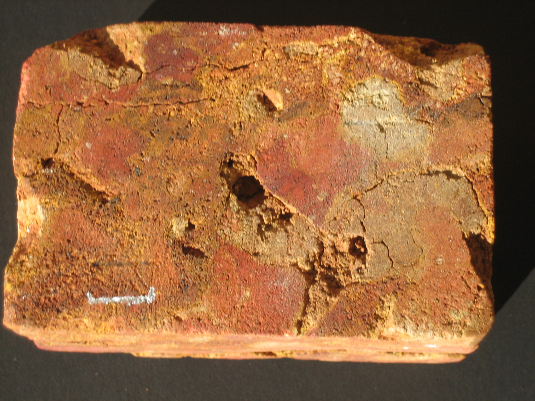 Sample of laterite brickstone, Angadipuram, India (scale 1 cm)